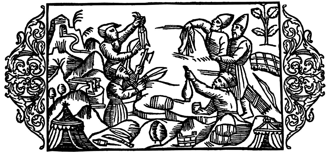 We see barter between Nordic people (to the left) and Russians (to the right). The Nordic people is offering dried pike fish, flour, axes, knives, scissors, cloth etc. The Russians offer skins, butter (?), arrows and bows etc.